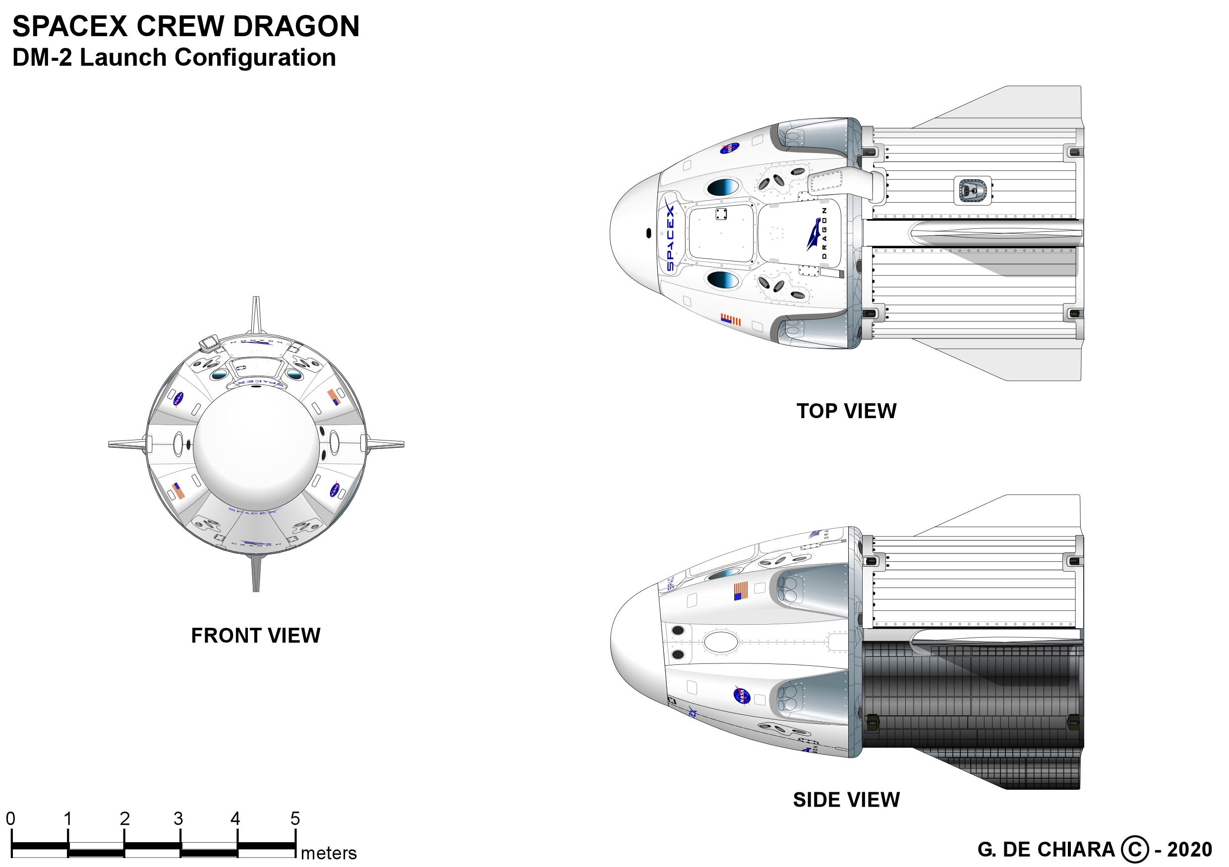 Crew Dragon Launch Configuration